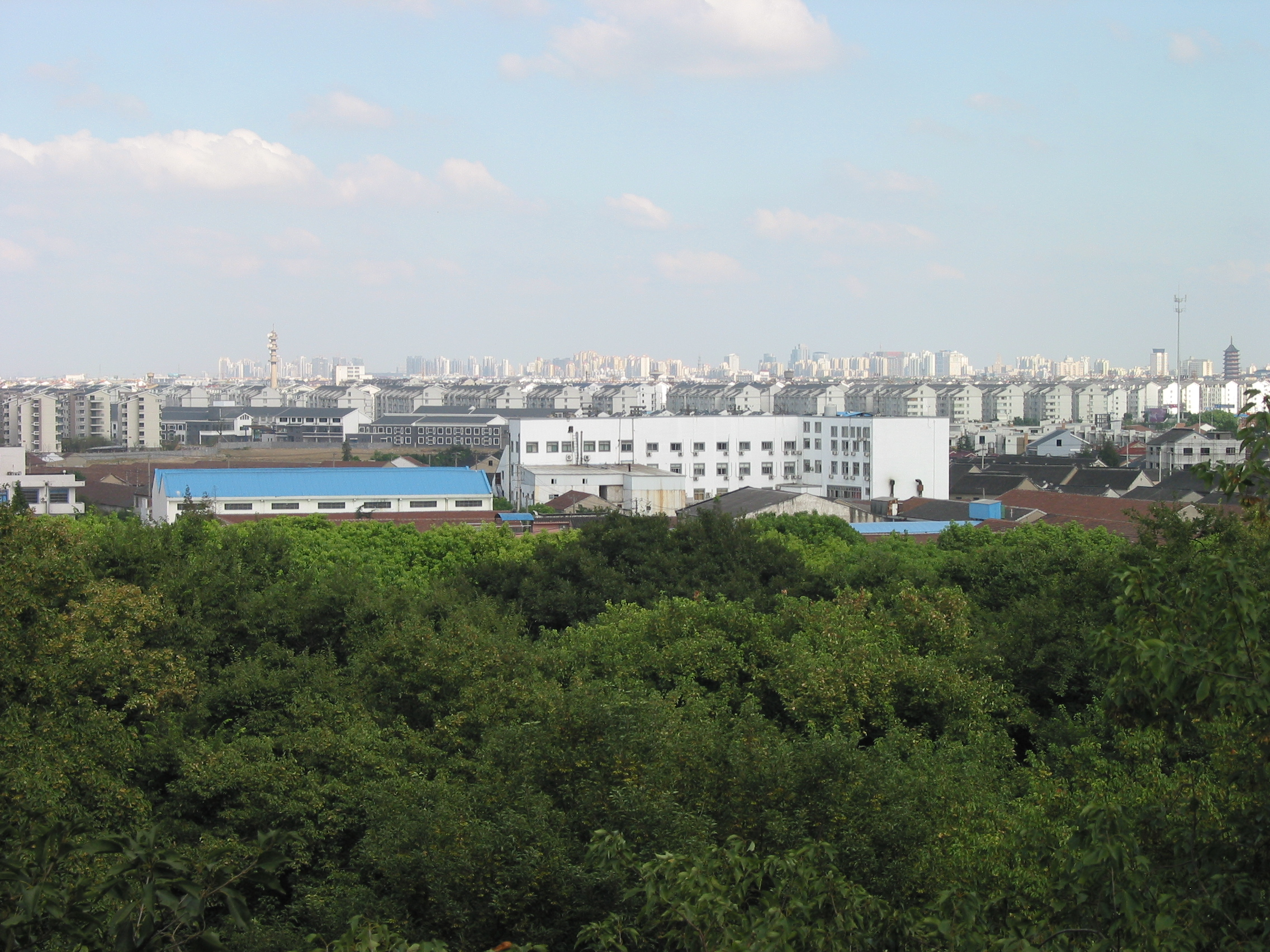 Skyline of Suzhou (苏州) from a garden hilltop